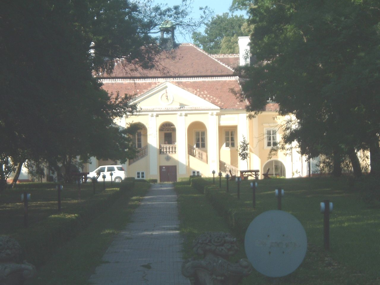 The mansion in Peresznye, Hungary This is a photo of a monument in Hungary, Identifier: 9254